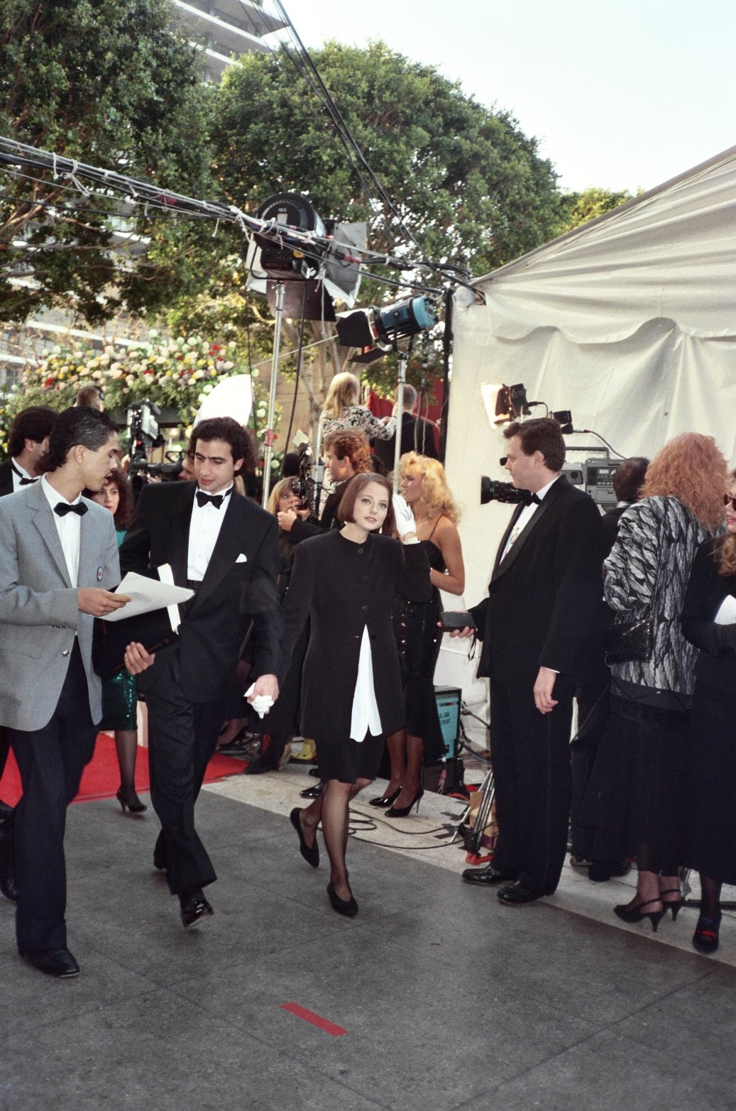 1990 Academy Awards NOTE: Permission granted to copy, publish, broadcast or post any of my photos, but please credit "photo by Alan Light" if you can. Thanks. Scanned from the original 35MM film negative.